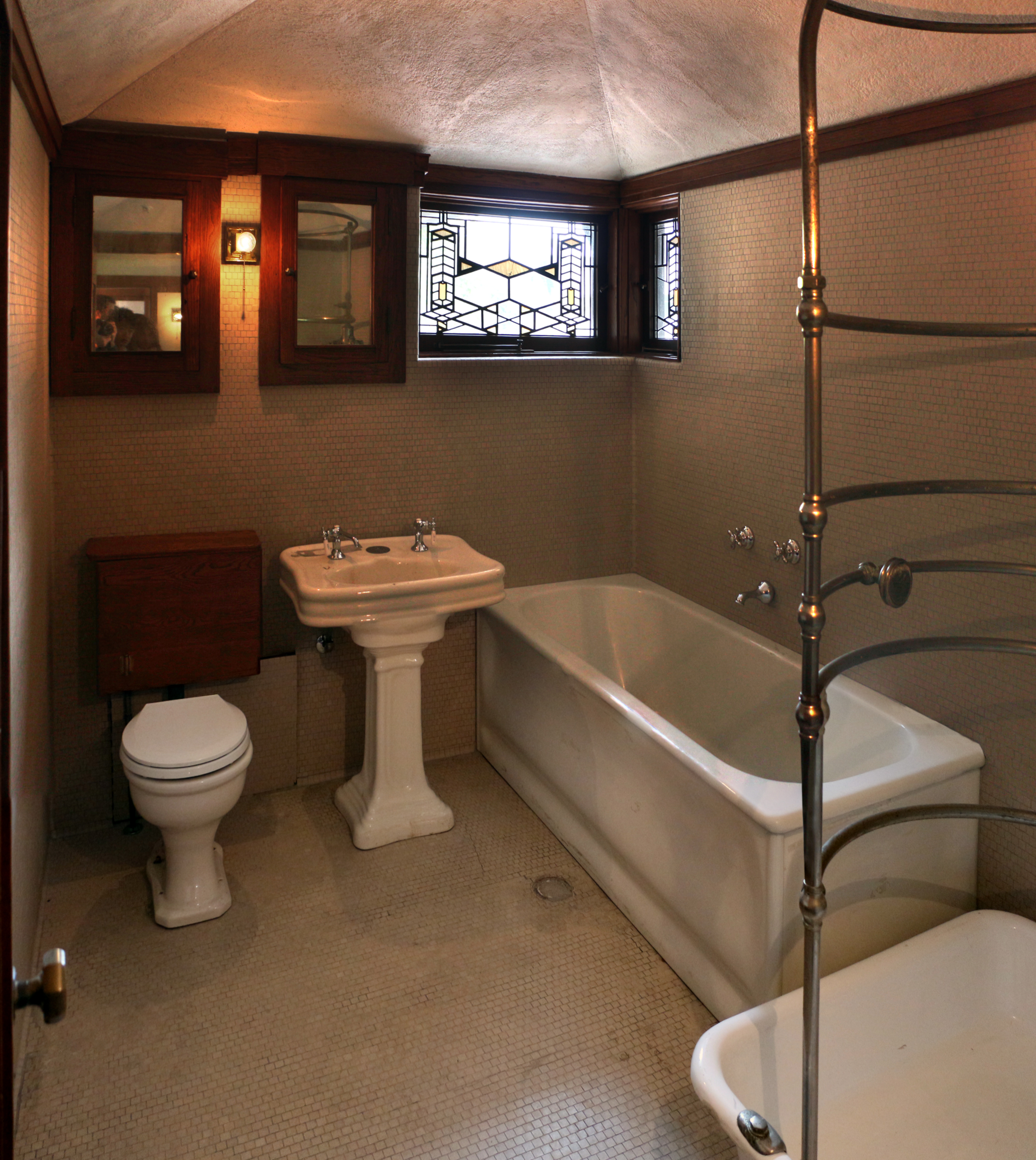 Robie House